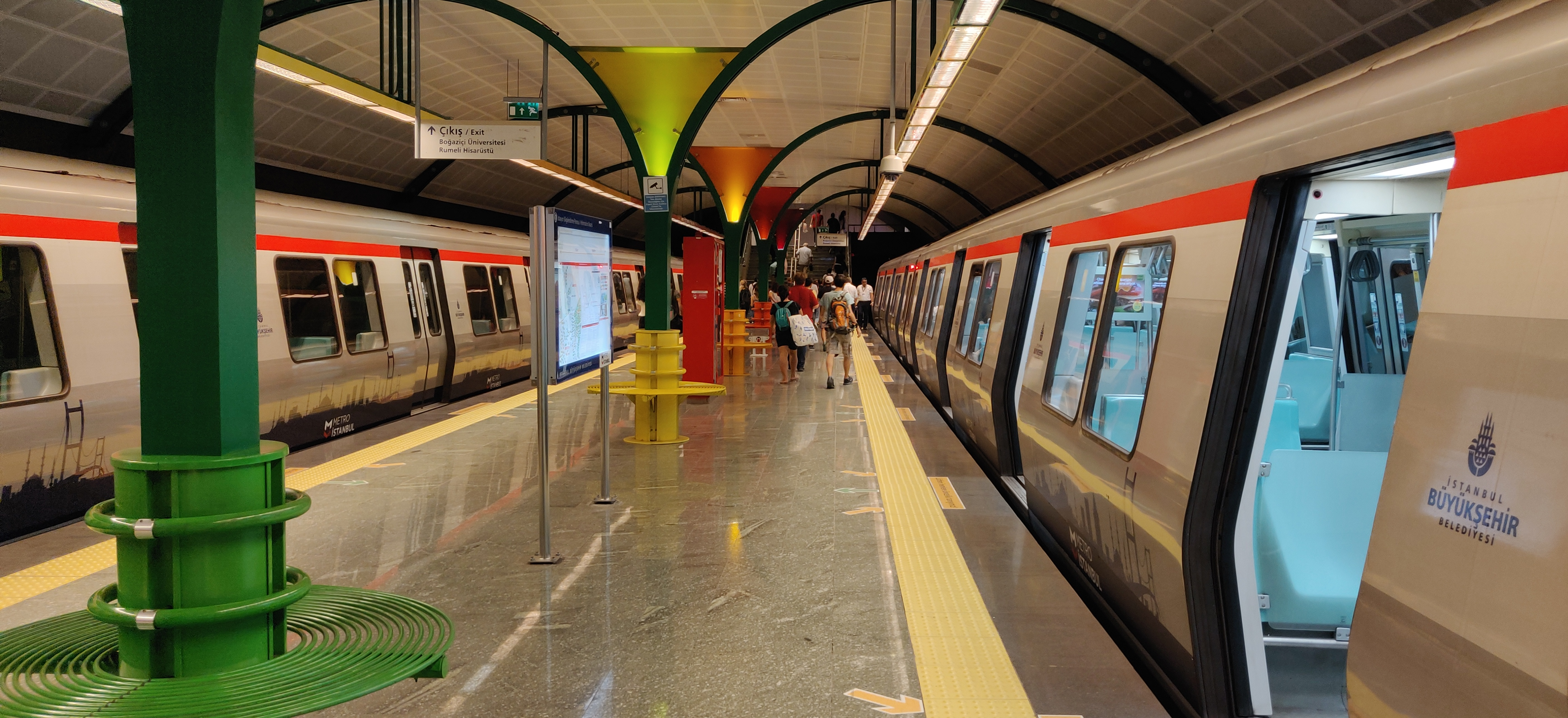 Bogazici Universitesi metro station on the M6 line.